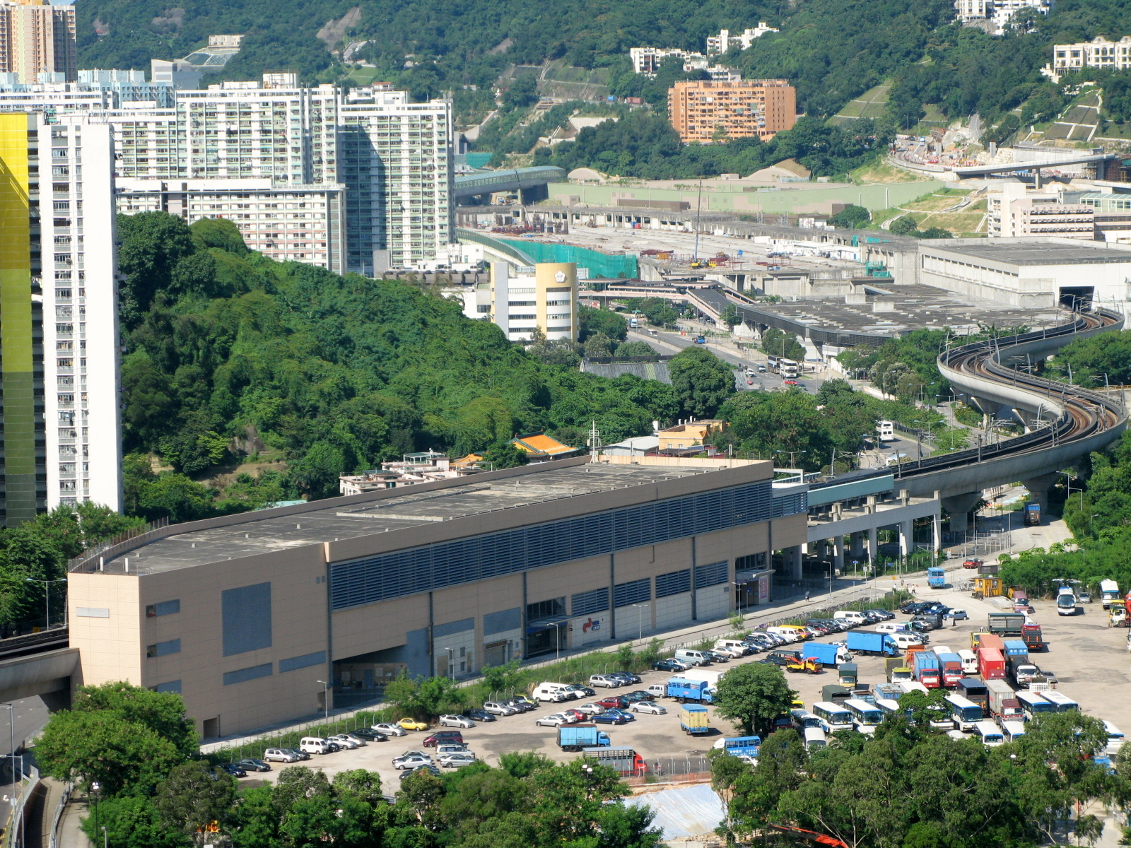 HK MTR Che Kung Temple Station